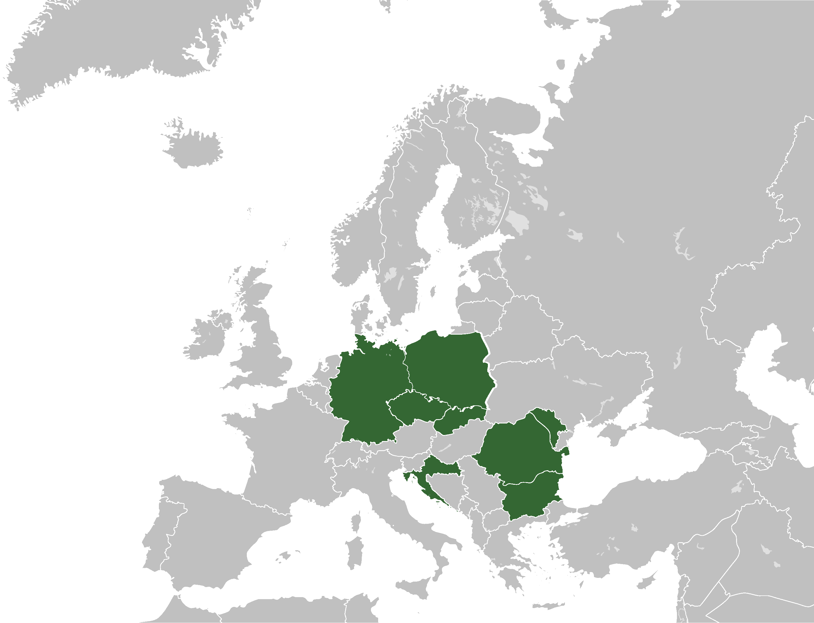 European countries in which Kaufland (a retailer company) operates (as of Sep 2019)